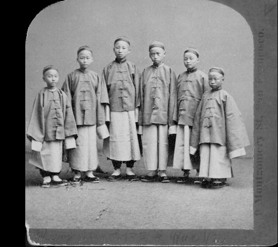 Six boys from the First Detachment taken after arriving at San Francisco in September 1872. From Left to Right: Chung Mun Yew, Liang Tun Yen, unidentified, Sze Kin Yung, unidentified, New Shan Chow. On the right side, it is "9, Montgomery St. San Francisco"